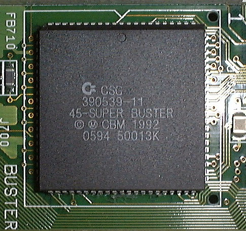 "Super Buster" custom chip used in Commodore Amiga 4000 series computers.